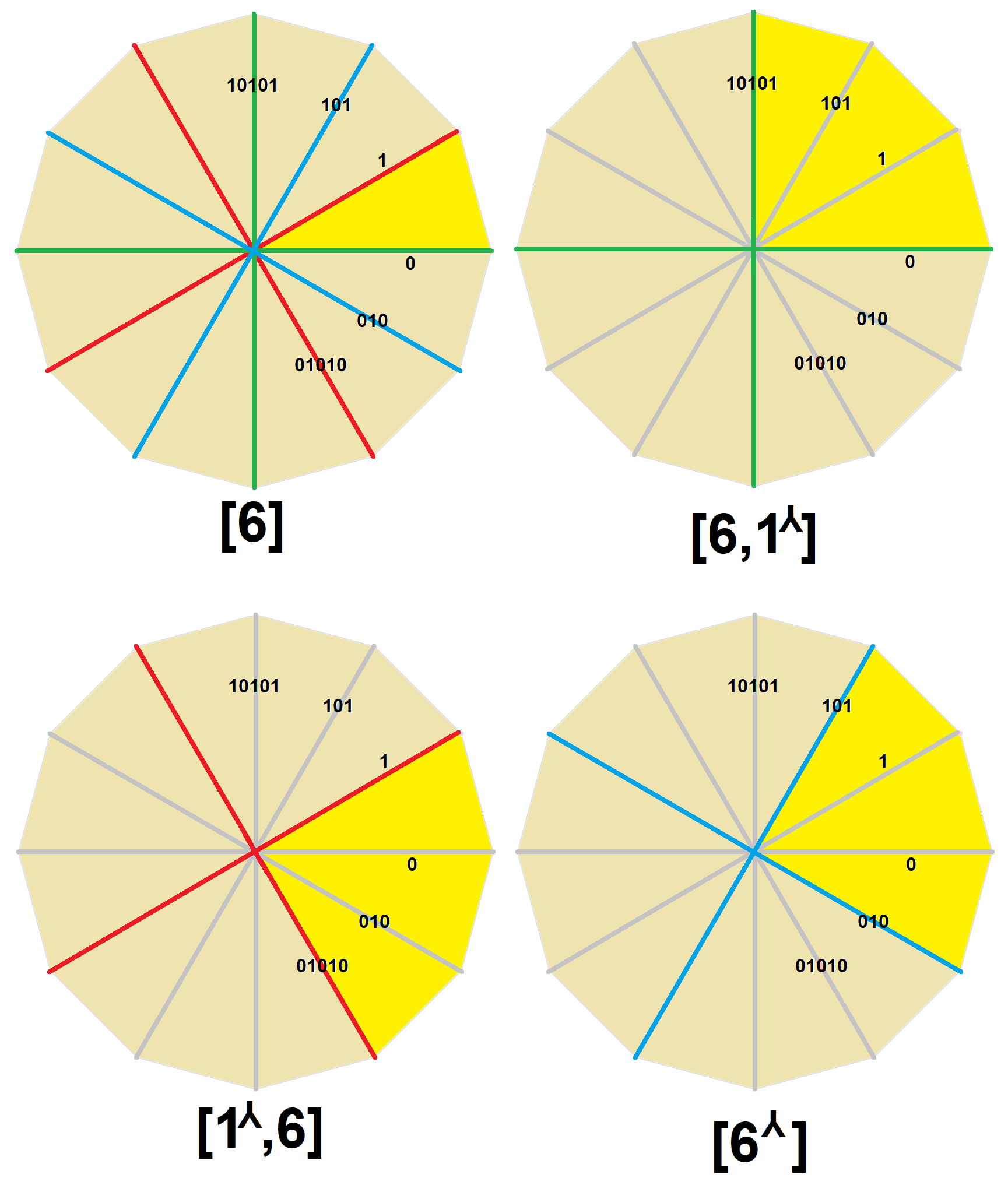 Hexagonal symmetry with trionic subgroups as 3 colors of mirrors, red, green, blue